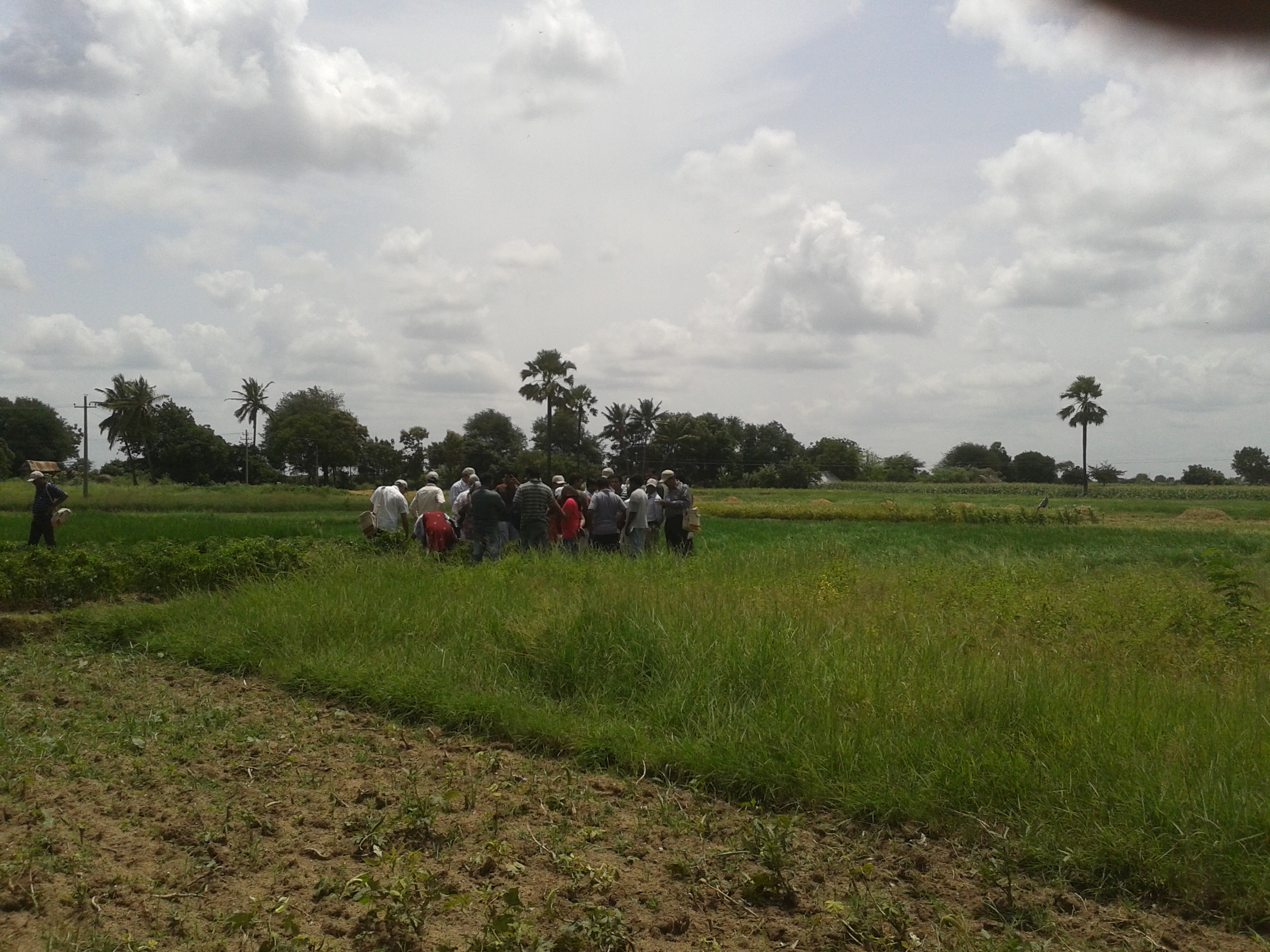 Scientists from Directorate of Rice Research visiting the crop fields at Enabavi, Warangal district, India.